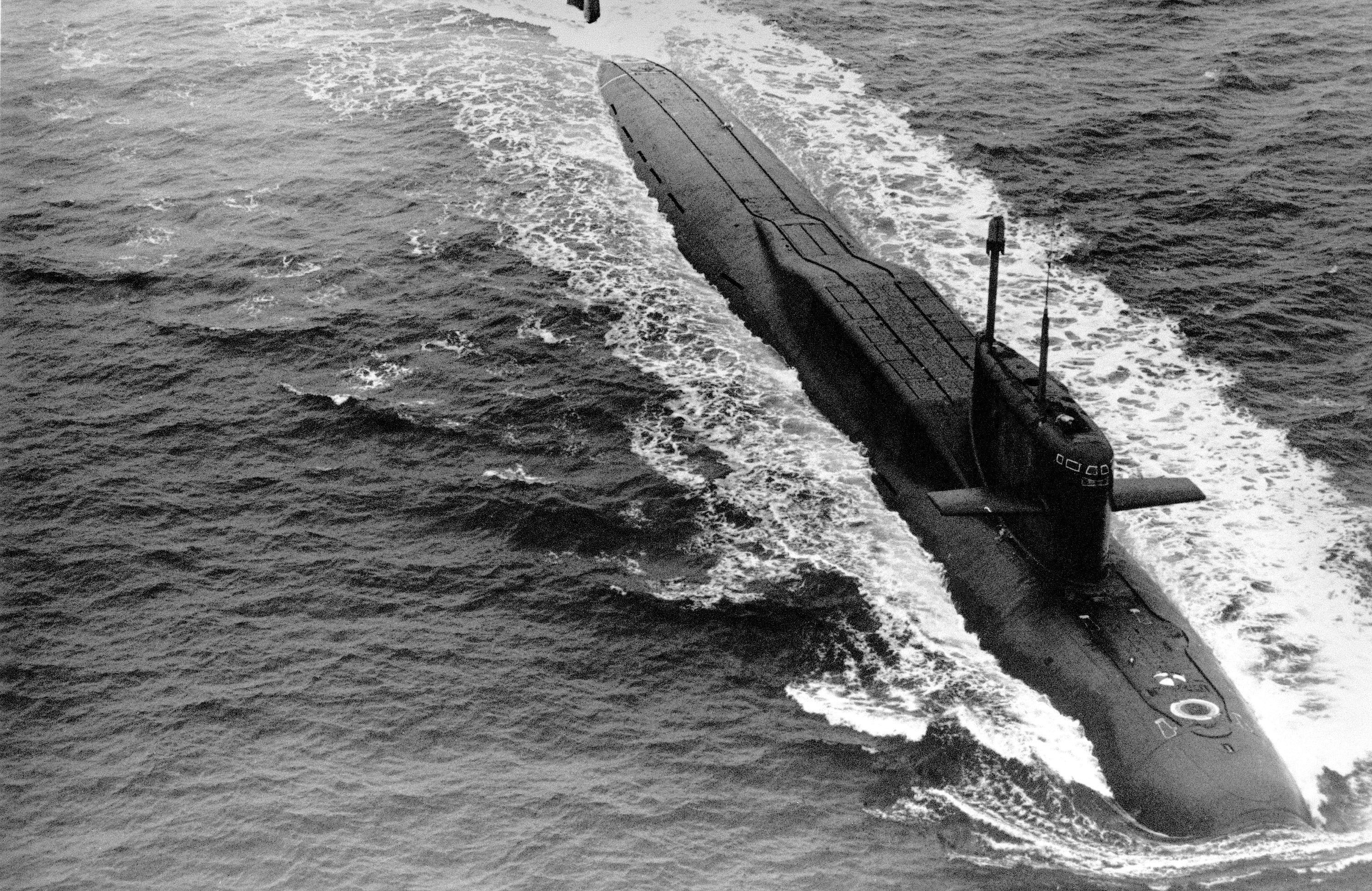 An elevated starboard bow view of K-140, a Soviet Yankee II class ballistic missile submarine underway.